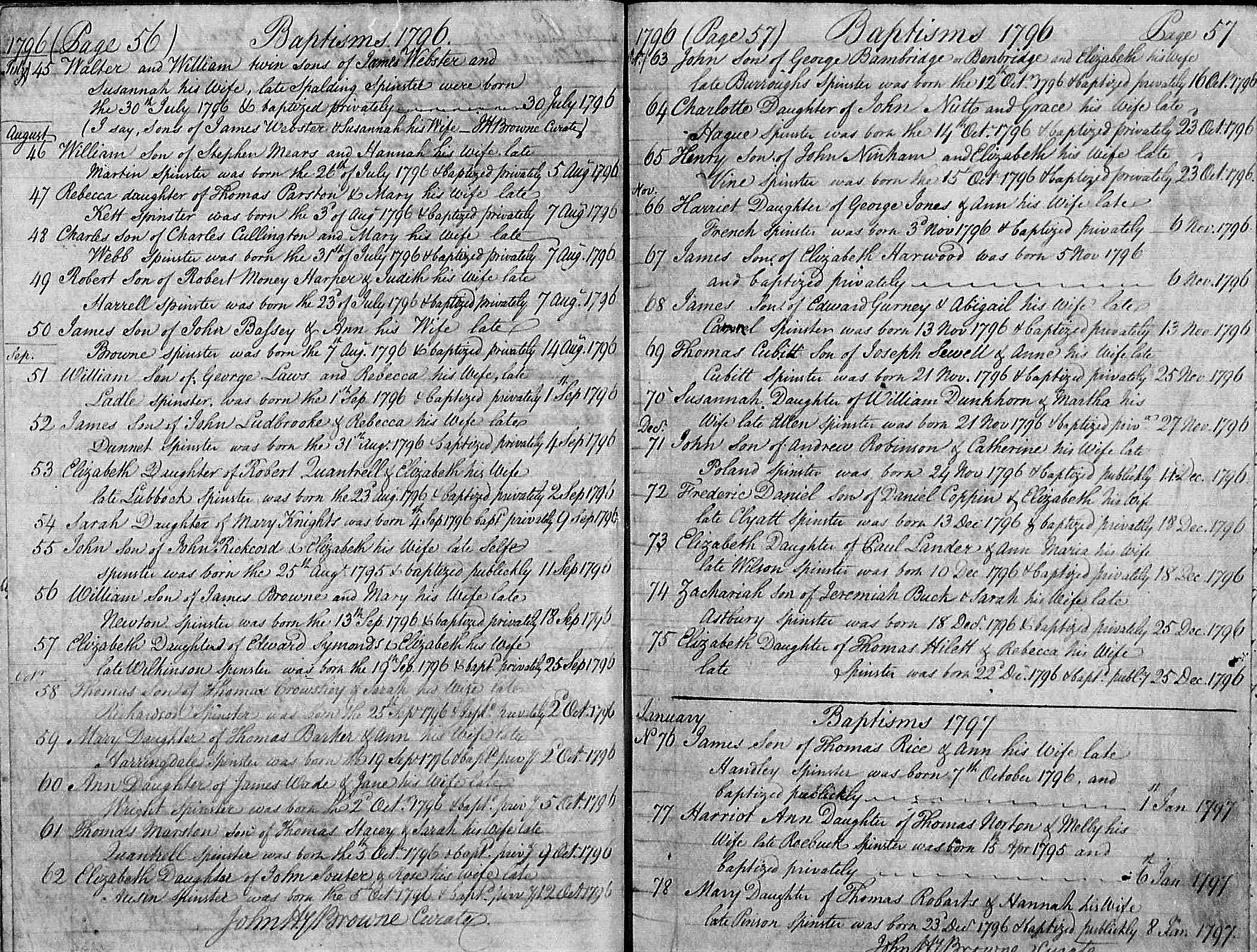 Henry Ninham's baptism record